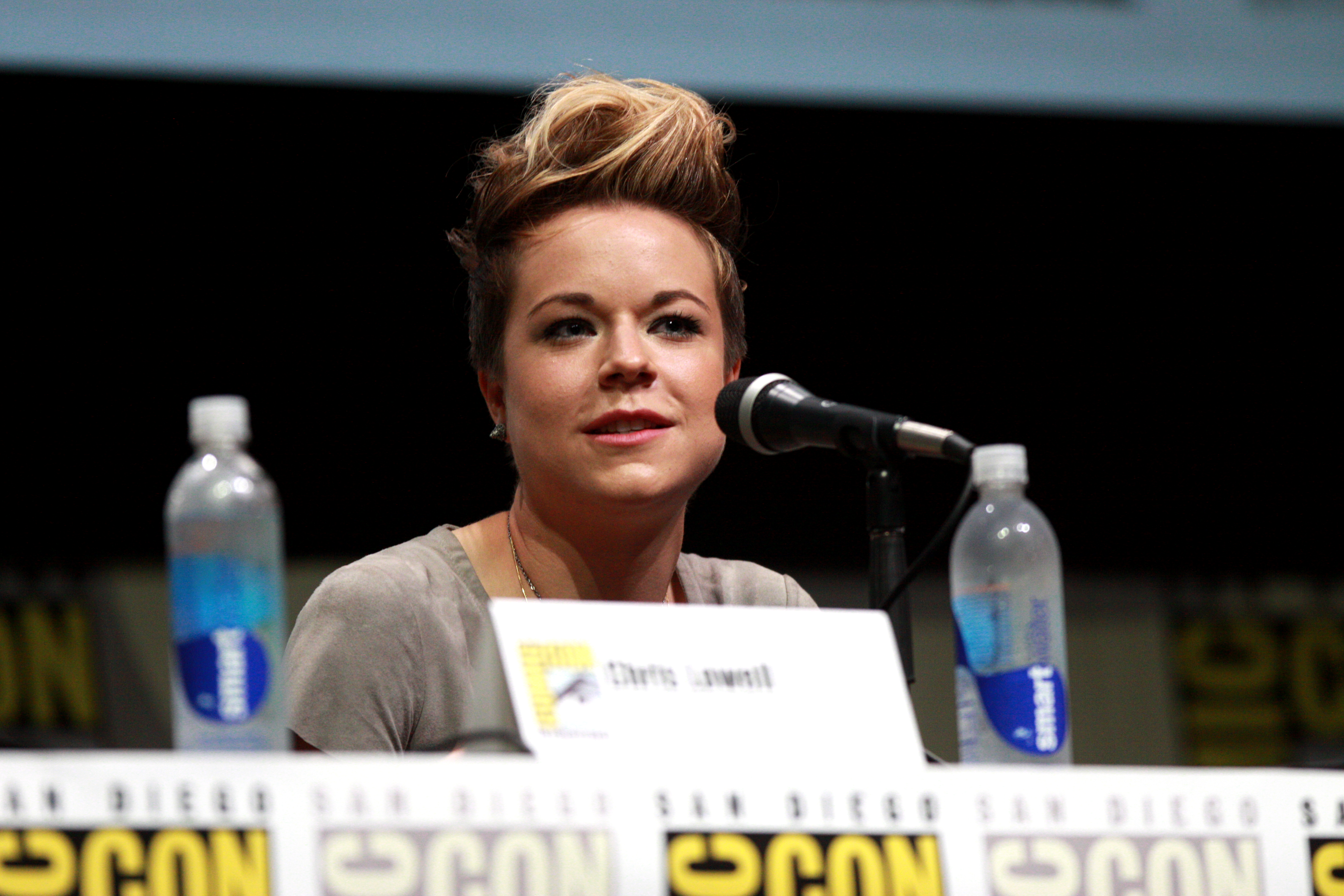 Tina Majorino speaking at the 2013 San Diego Comic Con International, for "Veronica Mars", at the San Diego Convention Center in San Diego, California.